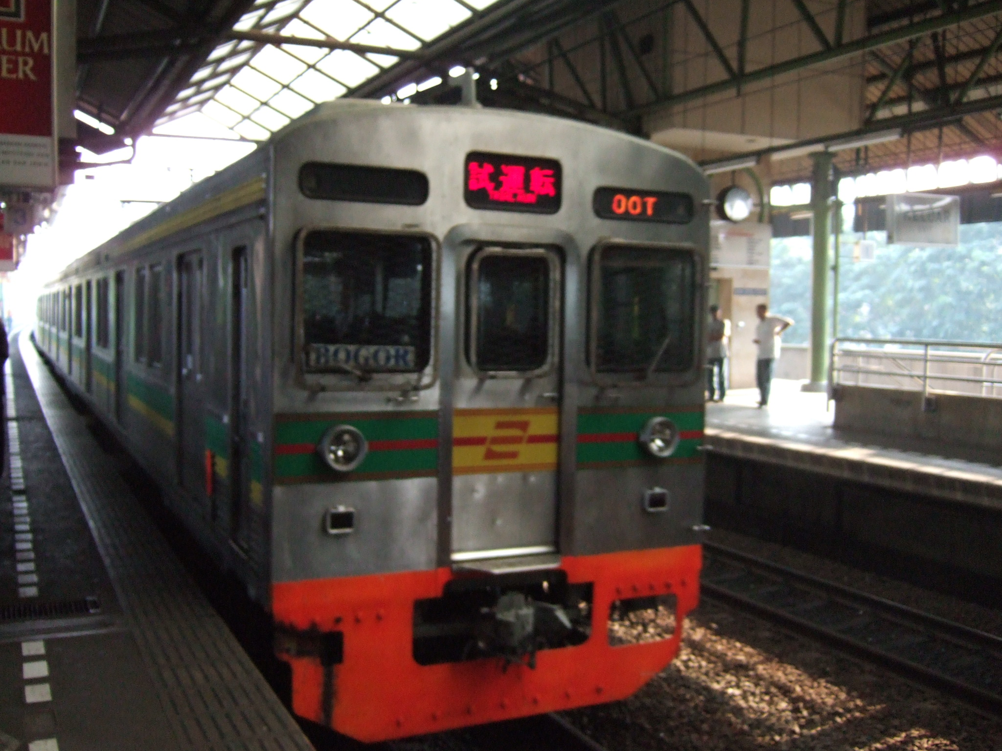 Pakuan Express (Jakarta-Bogor) at Gambir Station, Jakarta